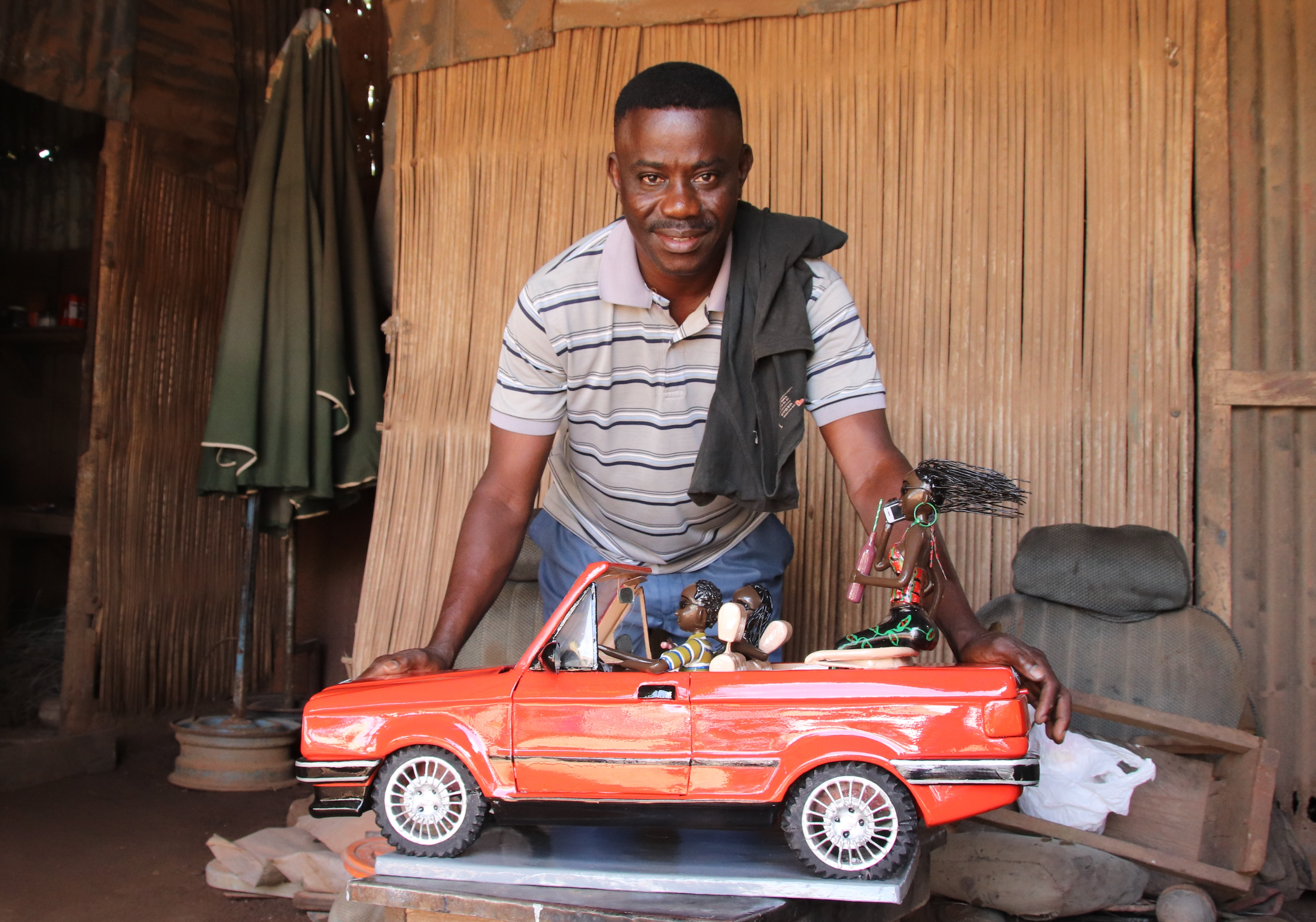 Didier Ahadsi in his studio in Togo.